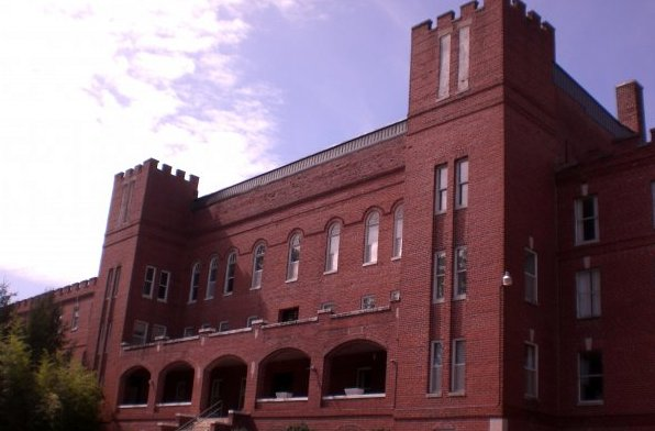 This is the main building on the Tennessee Military Institute campus, which was built in 1909, as it appeared in 2009.